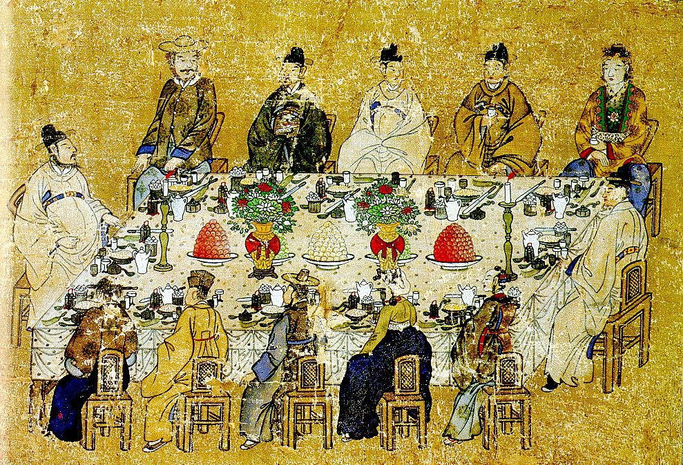 This documentary picture painted by Ahn, Jungsik depicts the commemorative feast for Treaty of Commerce between Korea and Japan in 1883